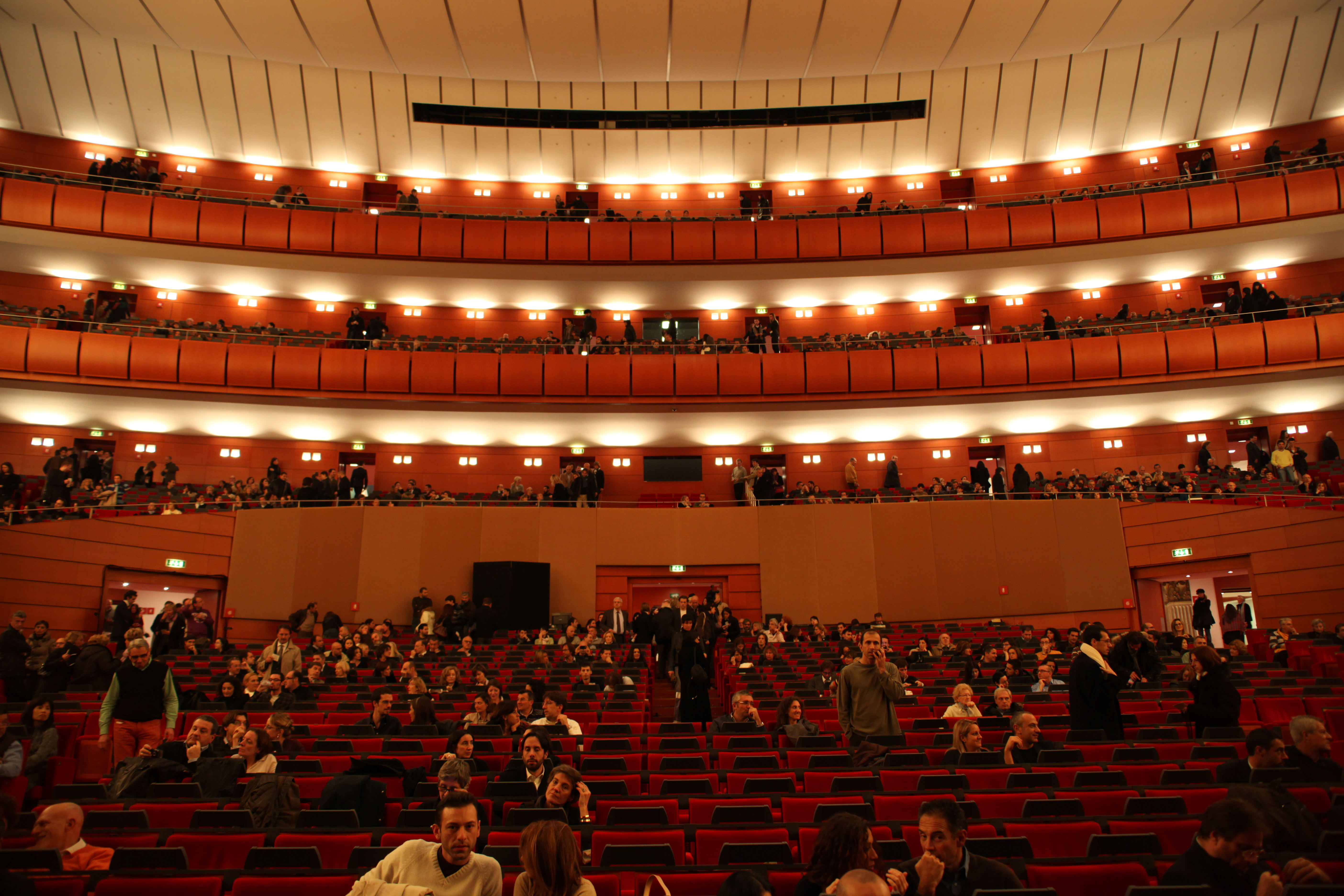 Teatro Arcimboldi of Milano in 2009